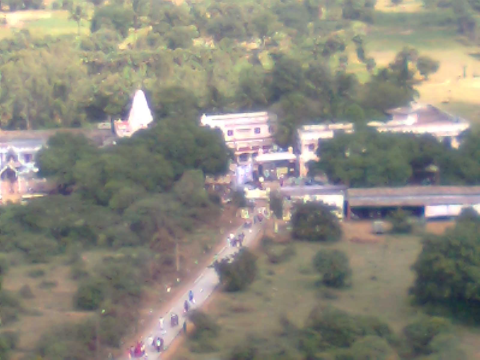 PONNUR MALAI JAIN TEMPLE FULL VIEW